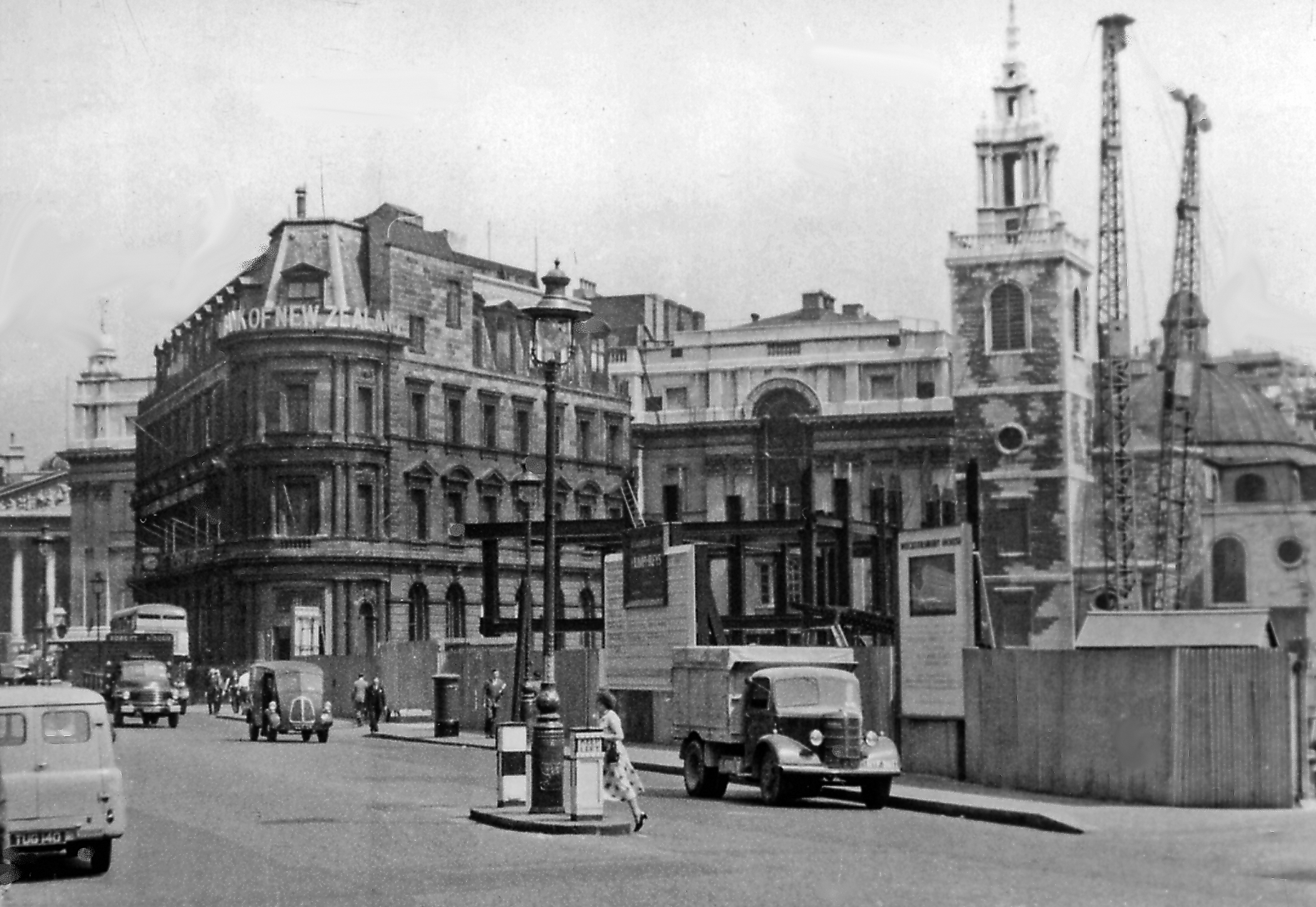 Eastward up Queen Victoria Street to Royal Exchange, with St Stephen's Church, Walbrook, 1955. View from the top of Queen Street. The Mansion House is just visible beyond the Bank of New Zealand. These, and the Royal Exchange, survived the Blitz, although the Church was damaged. New building work is seen under way.